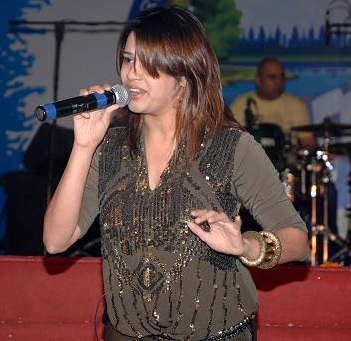 Shalmali Kholgade performs at Powai Fest 2014